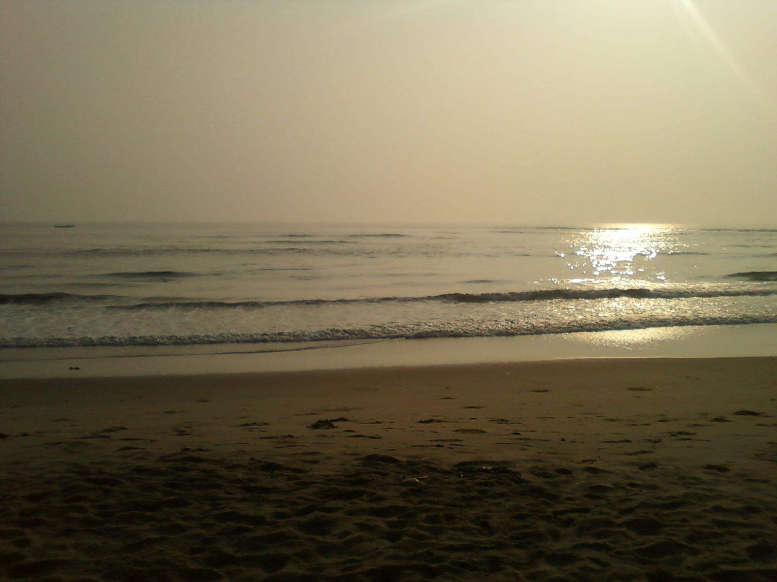 Morning view at Vakalpudi Kakinada Beach, Andhra Pradesh